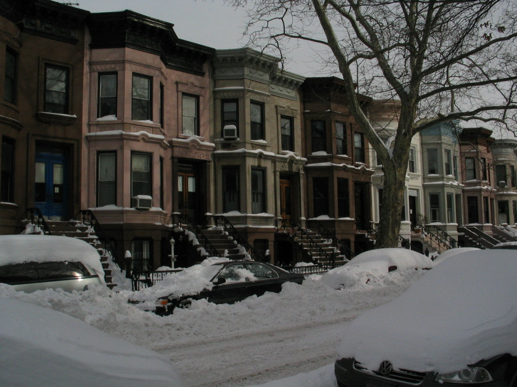 Vitrorian quarter of Park SLope in Snow